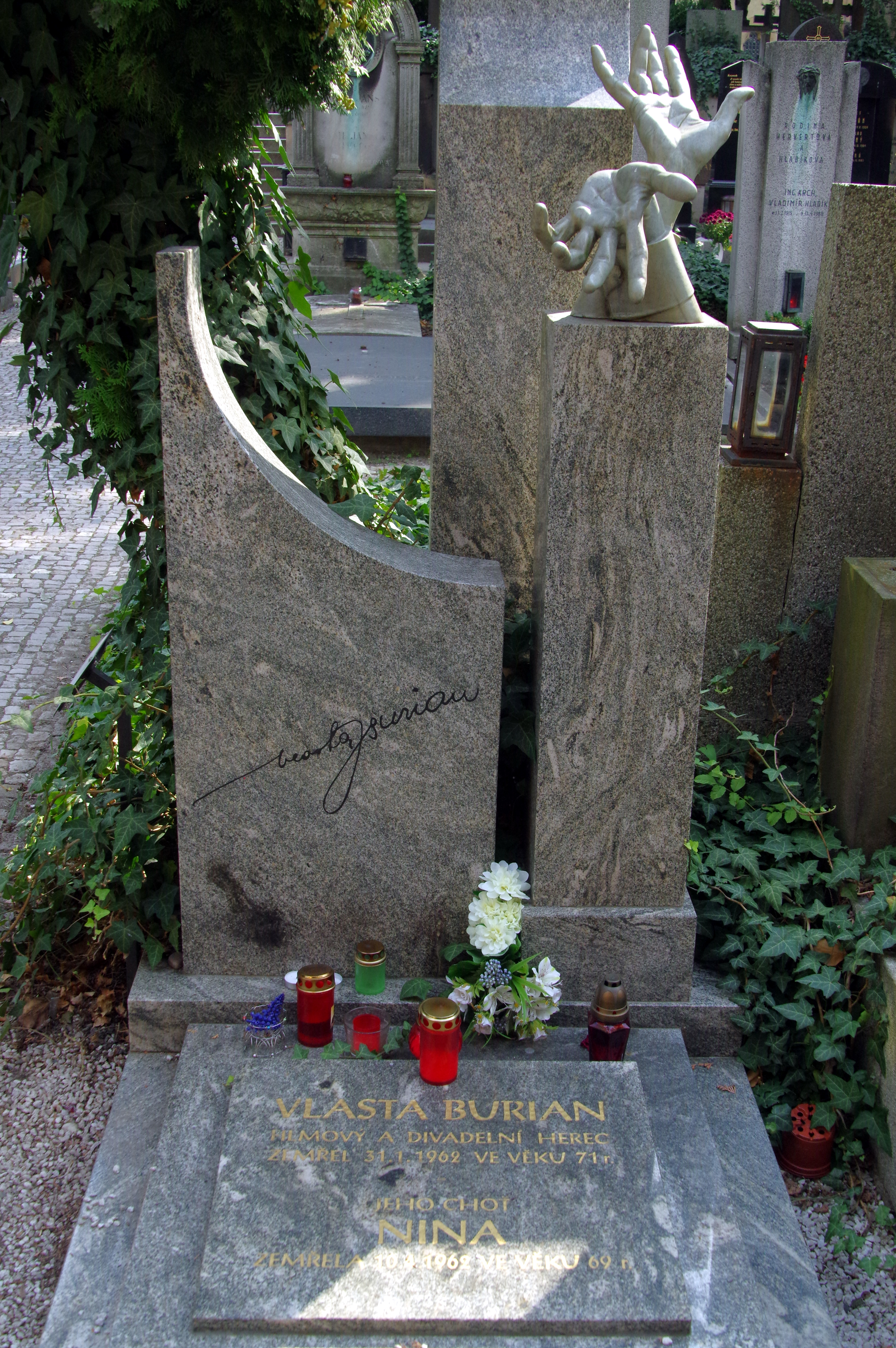 1.9.15 Vysehrad and VyseHratky